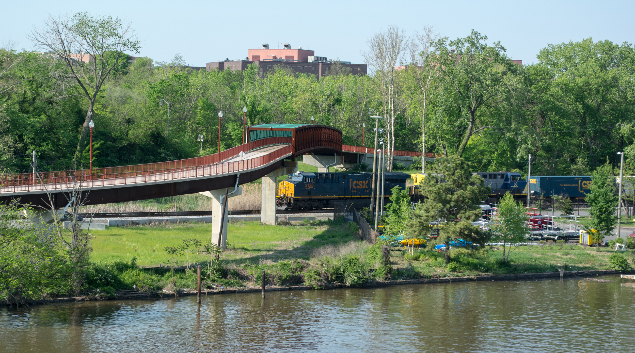 A CSX Transportation railroad engine and train passing beneath a pedestrian footbridge on the Anacostia Riverwalk Trail in Anacostia Park near the Anacostia Community Boathouse in Washington, D.C., in the United States in May 2014. The Anacostia River flows in the foreground.